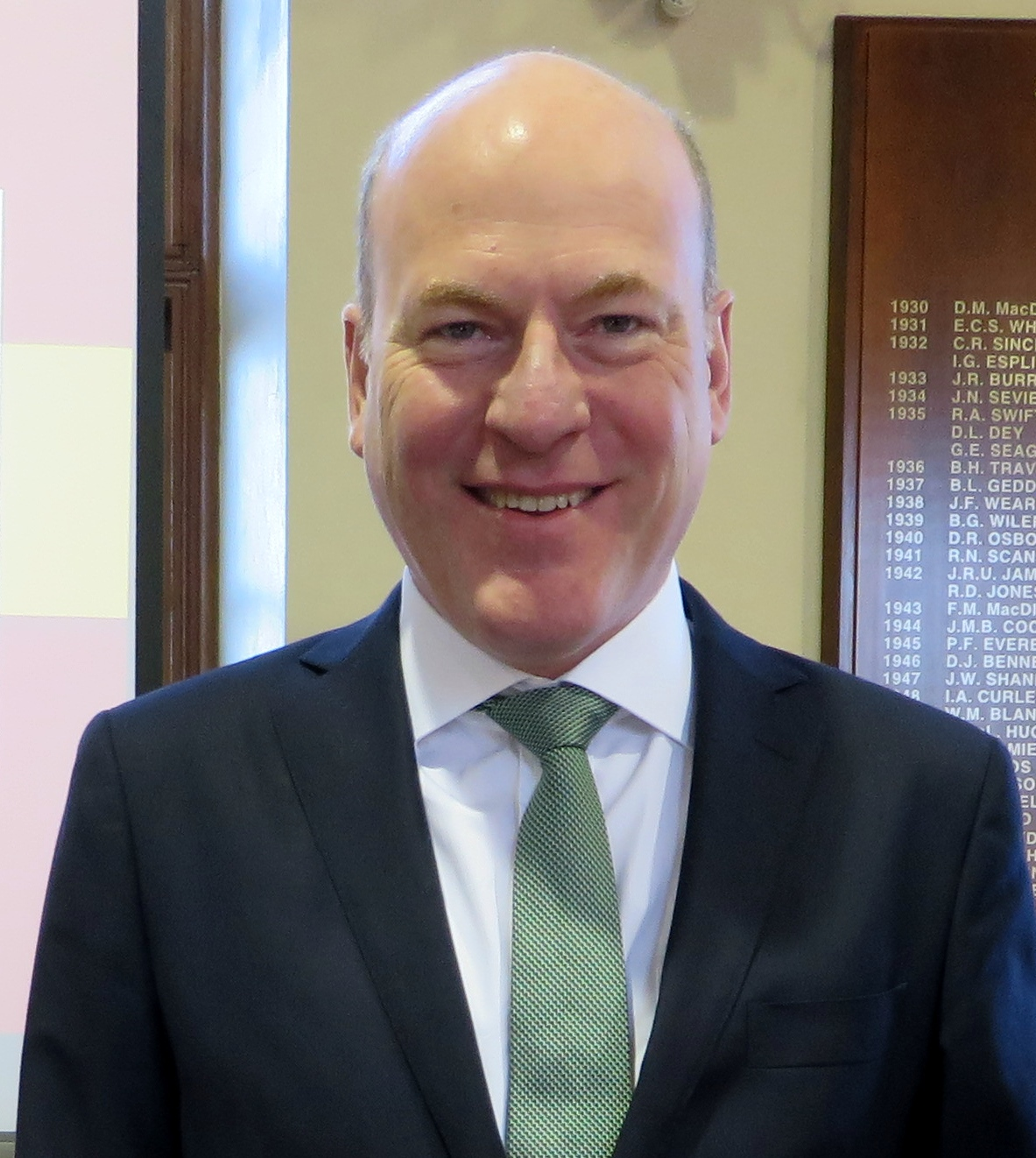 Trent Zimmerman at the opening of the Australian School Library Association (ASLA) Conference in North Sydney, July 2017. Image cropped to protect the privacy of others in the original image.